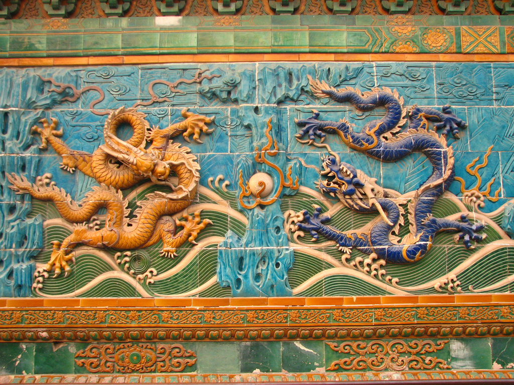 The Nine Dragon Wall in the Beihai Park, a large imperial garden in central Beijing